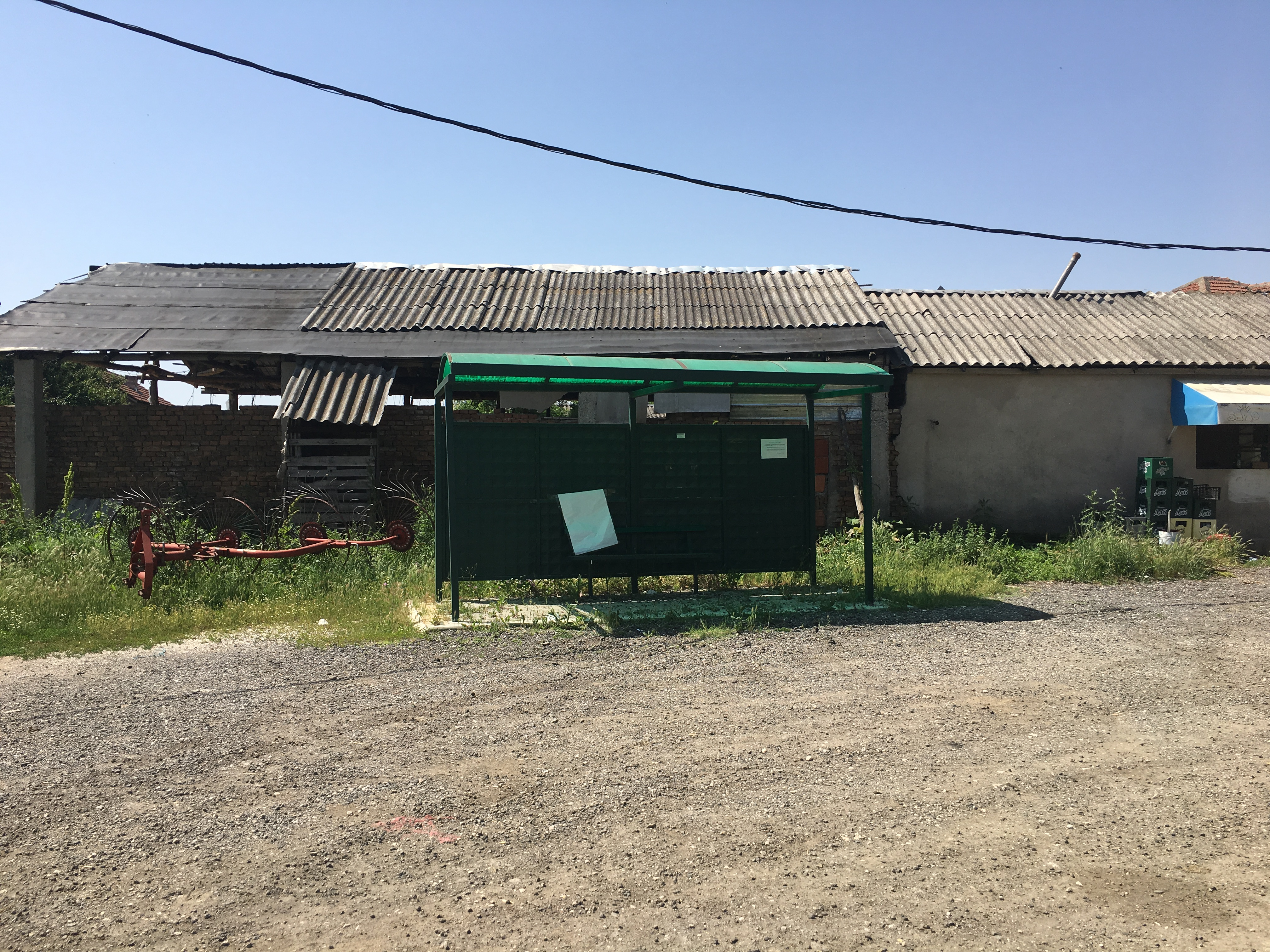 A bus stop in the village of Trn